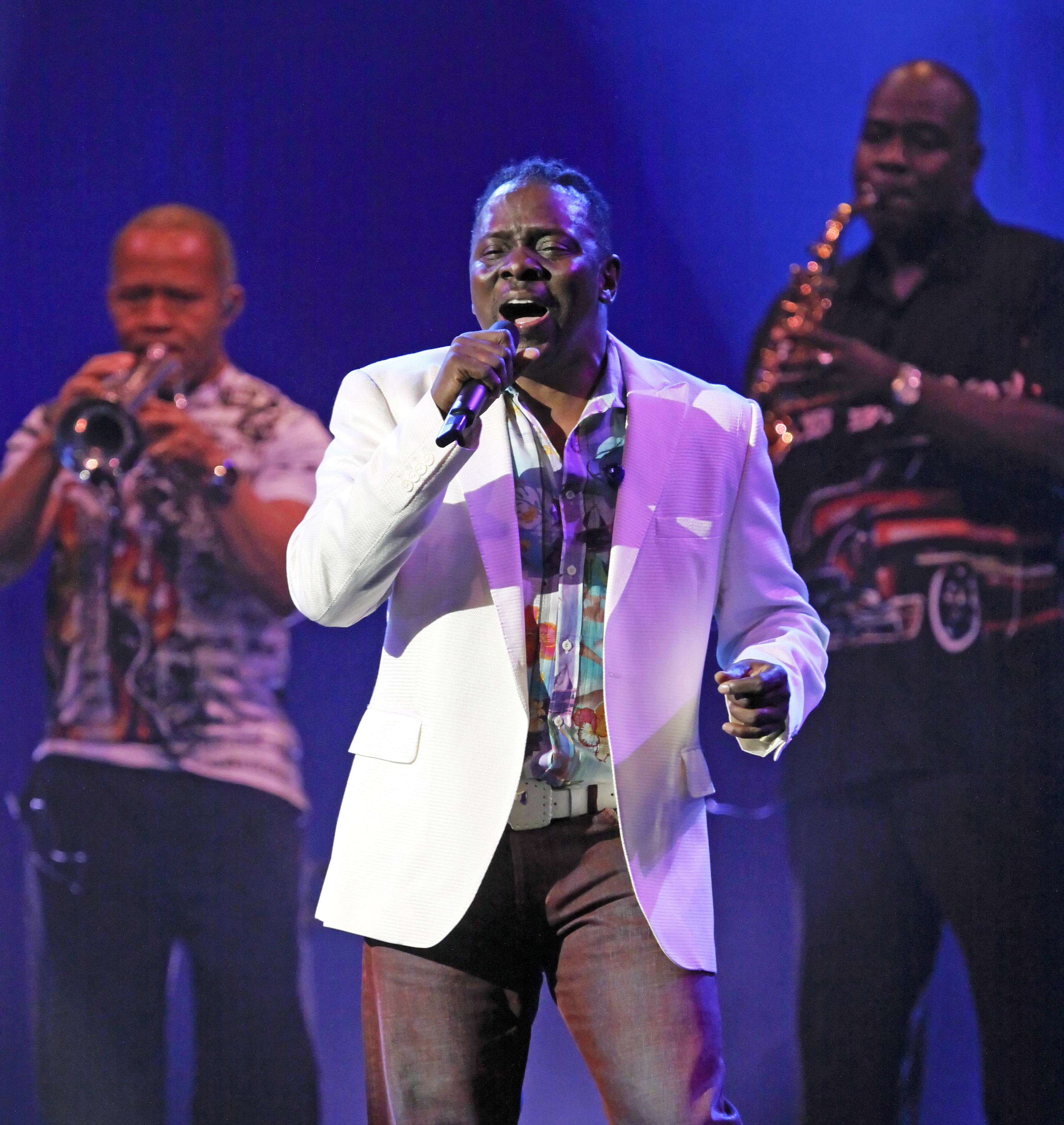 Philip Bailey performing with Earth, Wind & Fire